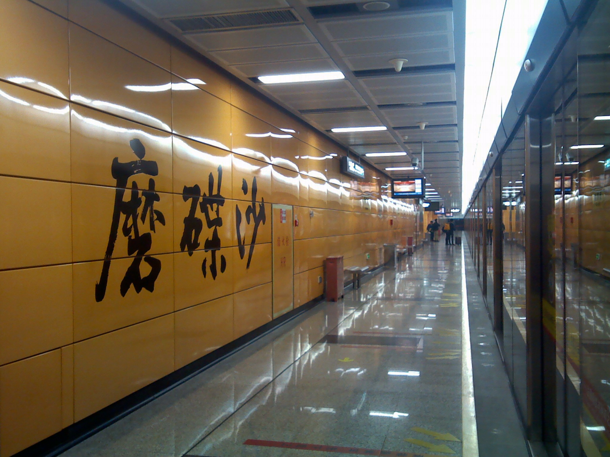 车站月台（凤凰新村方向）